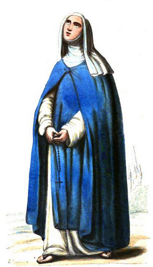 Picture from René Tiron, Histoire et costumes des ordres religieux, civils et militaires, Volume 1, Librairie historique-artistique, 1845